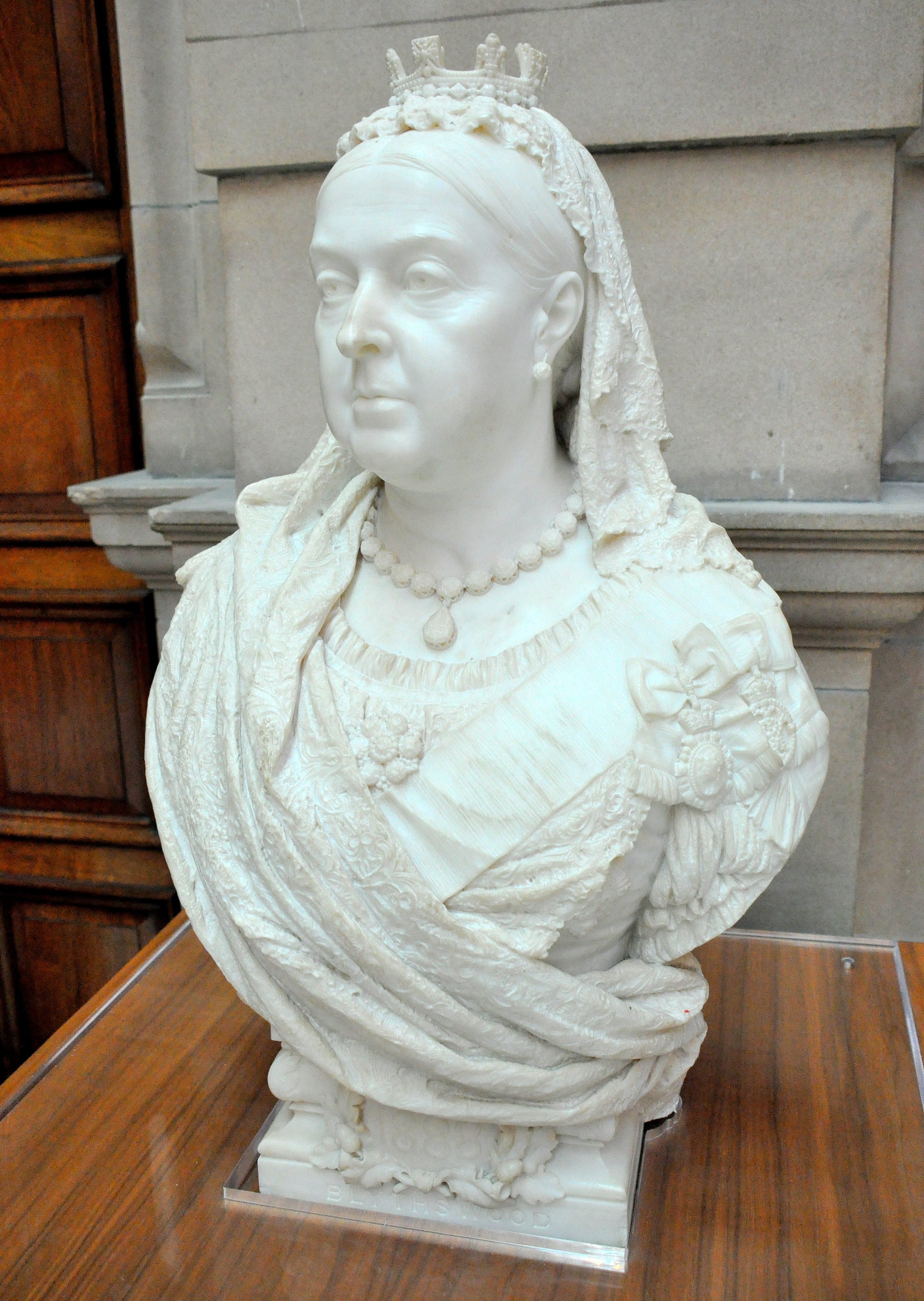 Jubilee bust of Queen Victoria. Francis John Williamson, 1887. Kelvingrove Art Gallery and Museum, Glasgow, UK.